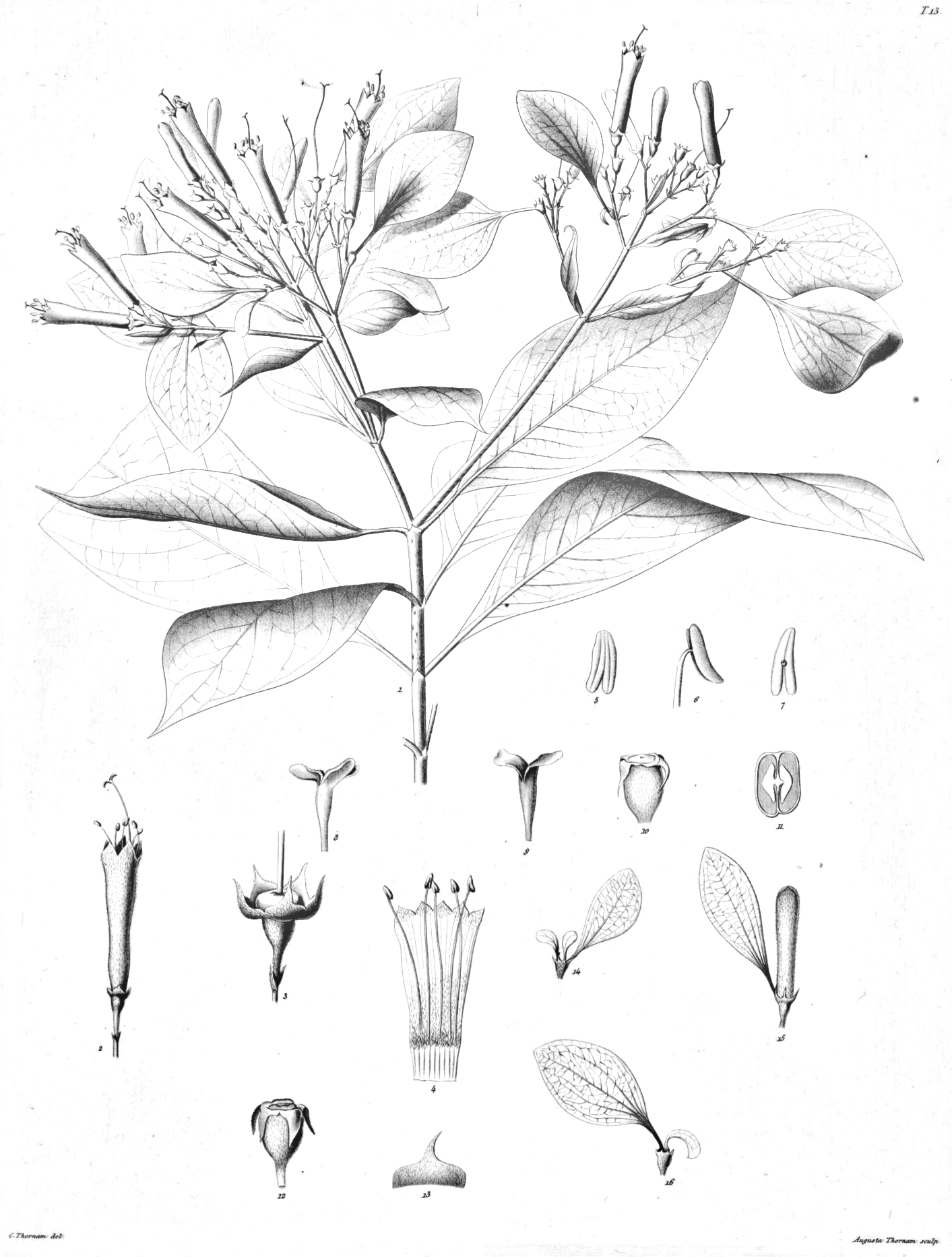 Plate from book